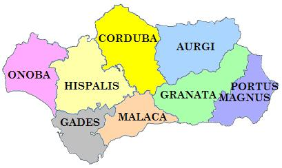 The provinces of Andalucía, in Latin. Adapted from the Spanish map.